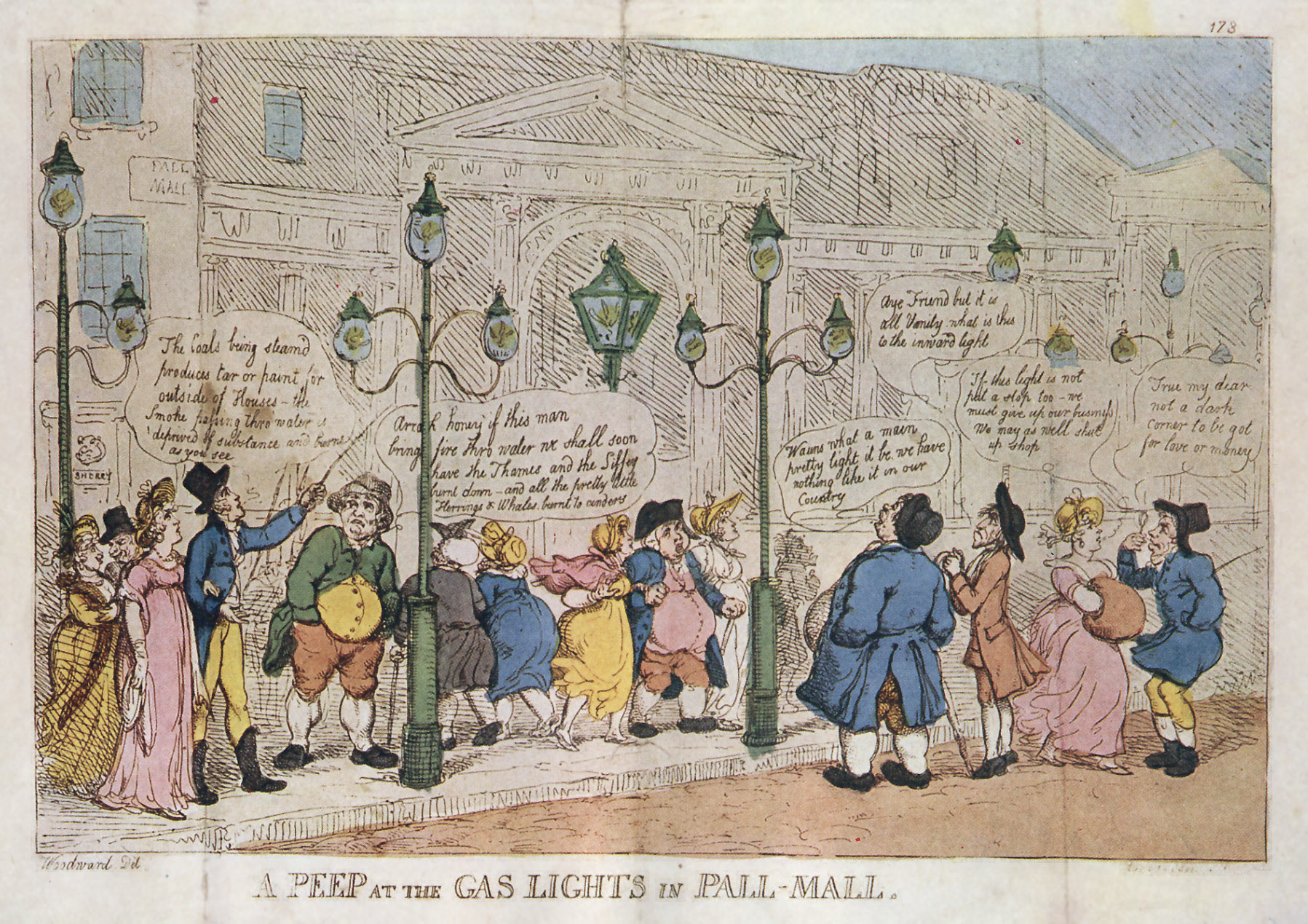 "A Peep at the Gas-lights in Pall Mall", a humorous caricature of reactions to the installation of the new invention of gas-burning street lighting on Pall-Mall, London. Dialogue in caricature: Well-informed gentleman "The Coals being steam'd produces tar or paint for the outside of Houses -- the Smoke passing thro' water is deprived of substance and burns as you see." Irishman "Arragh honey, if this man bring fire thro water we shall soon have the Thames and the Liffey burnt down -- and all the pretty little herrings and whales burnt to cinders." Rustic bumpkin "Wauns, what a main pretty light it be: we have nothing like it in our Country." Quaker "Aye, Friend, but it is all Vanity: what is this to the Inward Light?" Shady Female "If this light is not put a stop to -- we must give up our business. We may as well shut up shop." Shady Male "True, my dear: not a dark corner to be got for love or money."